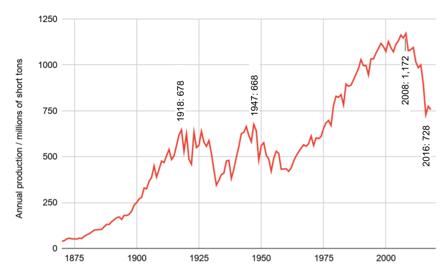 US coal production time series 1870 to 2018